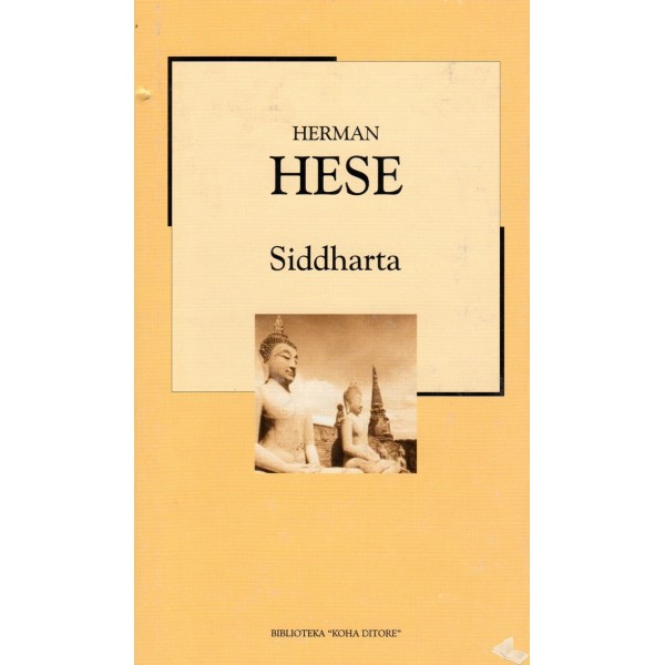 Libri i përkthyer në Shqip